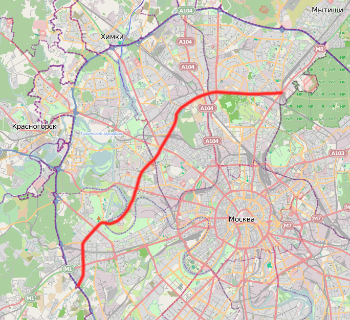 The plan of "Severo-Zapadnaya horda" road in Moscow